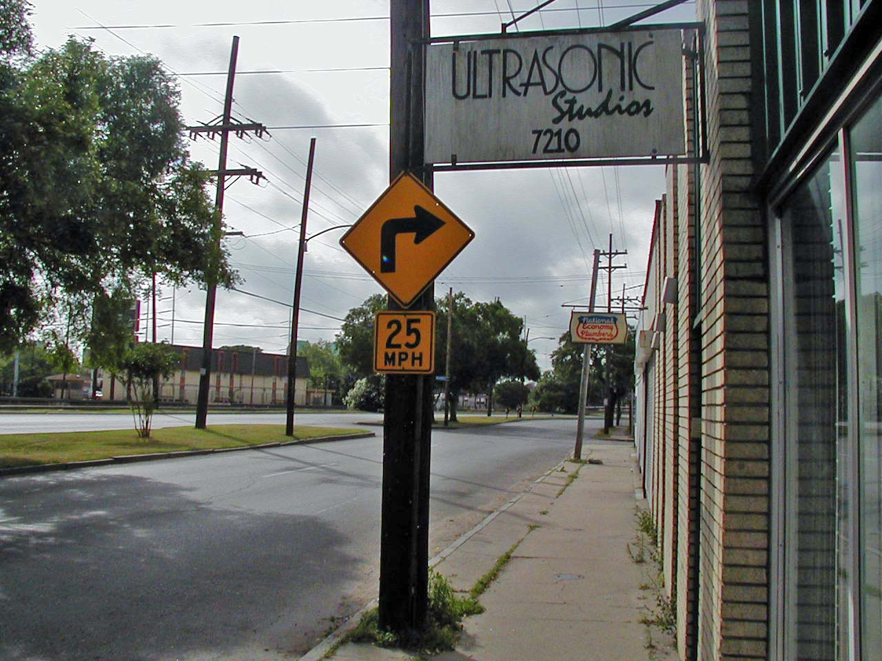 Sign at the front door of the famous Ultrasonic Studios in New Orleans